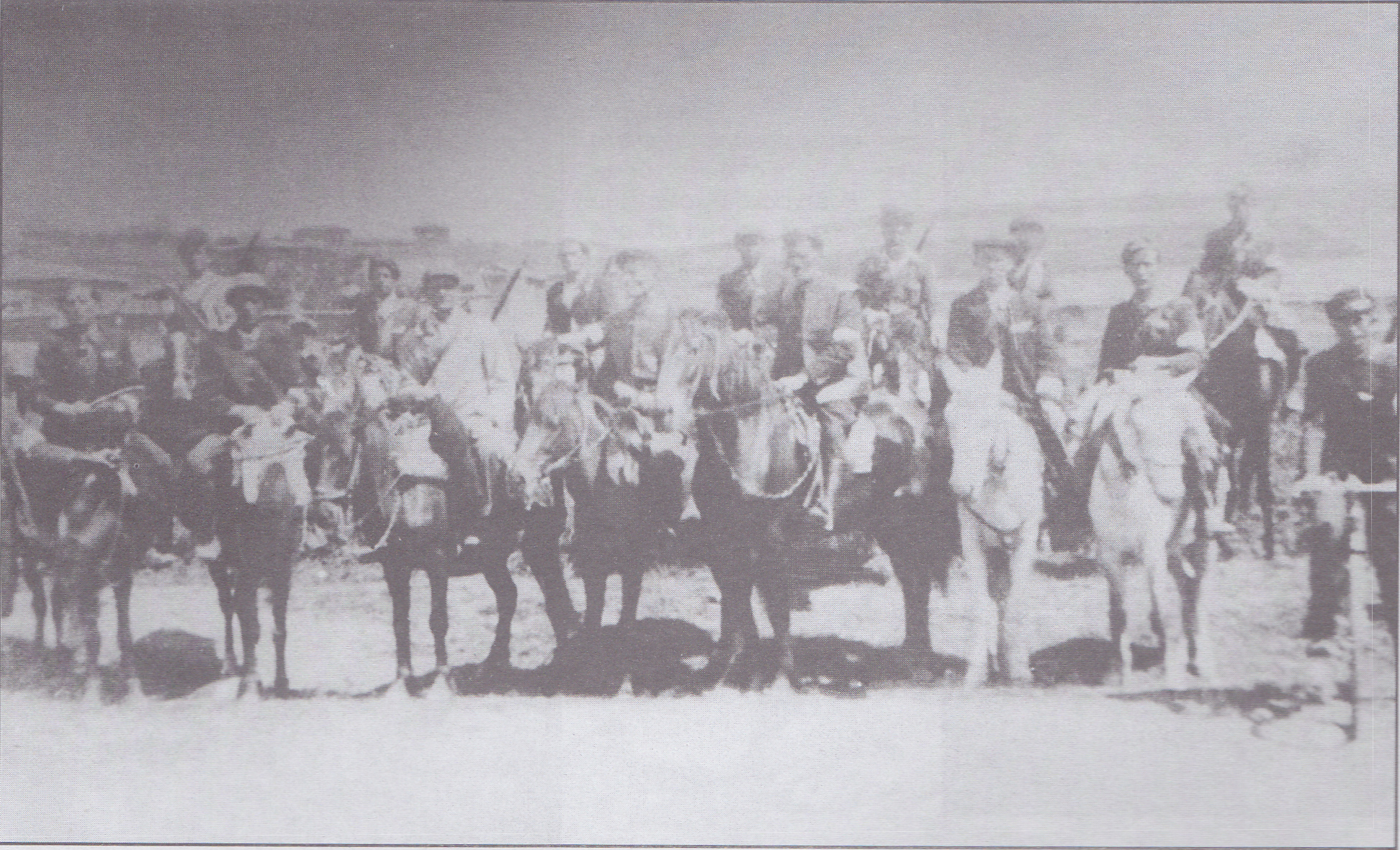 Dobrolishta cheta 1943 with Paskal Kalimanov